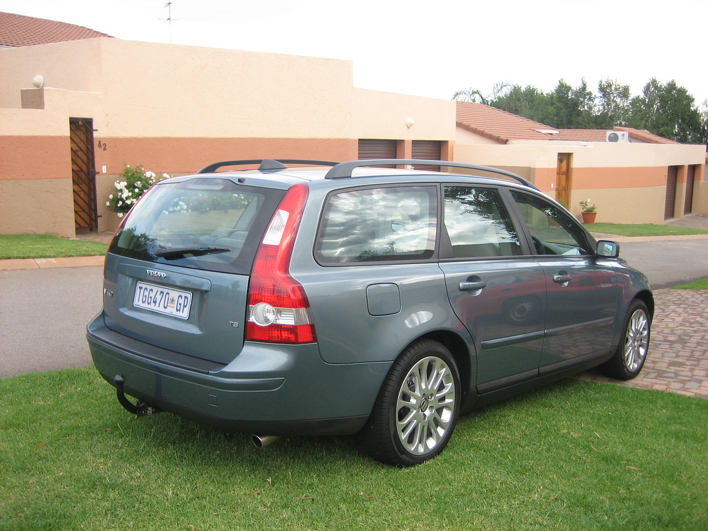 2006 Volvo V50 T5 station wagon